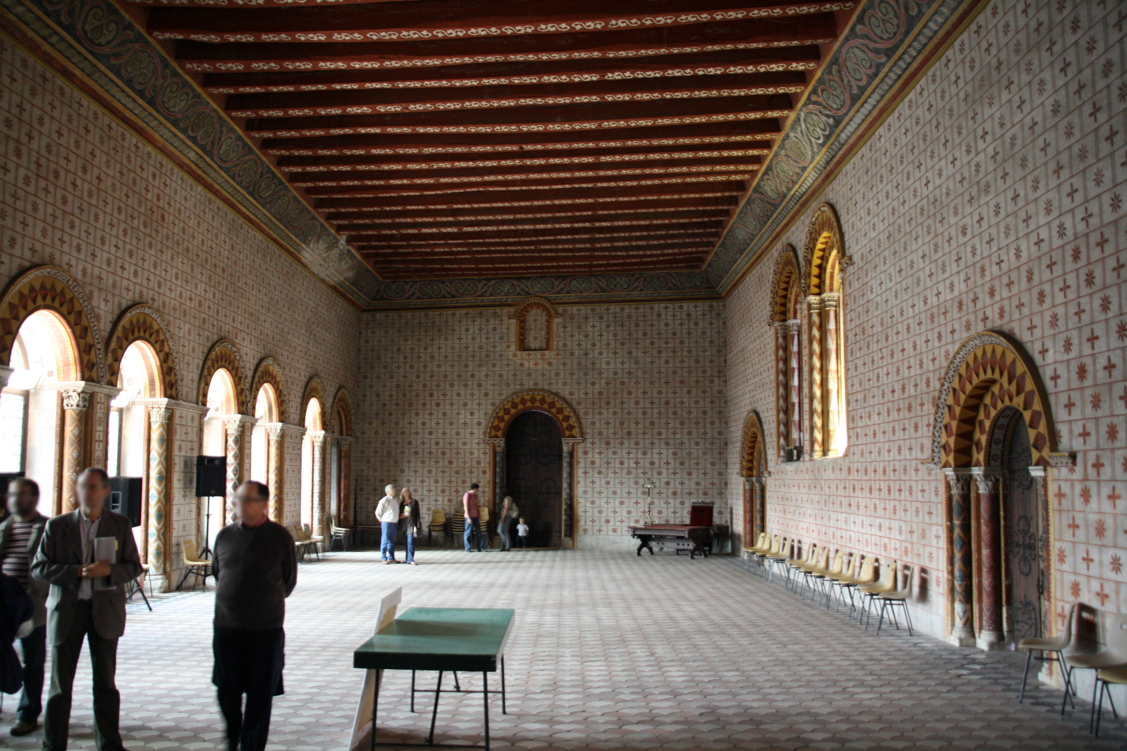 High justice court in the episcopal palace of Angers, Maine-et-Loire, Pays de la Loire, France.